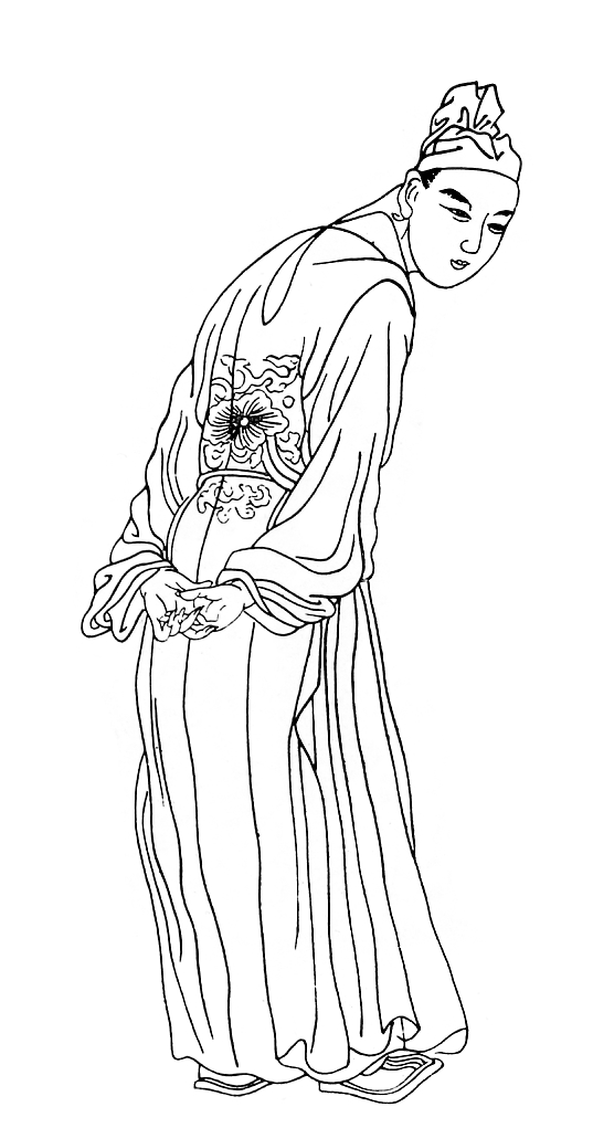 Li Shang-yin, chinese classical poet in Tang dynasty, china; "晚笑堂竹莊畫傳".